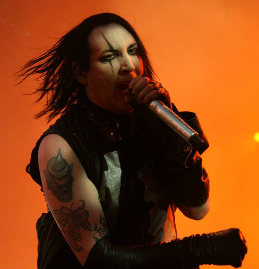 Marilyn Manson at Quart Festival sike, Kristiansand, Norway